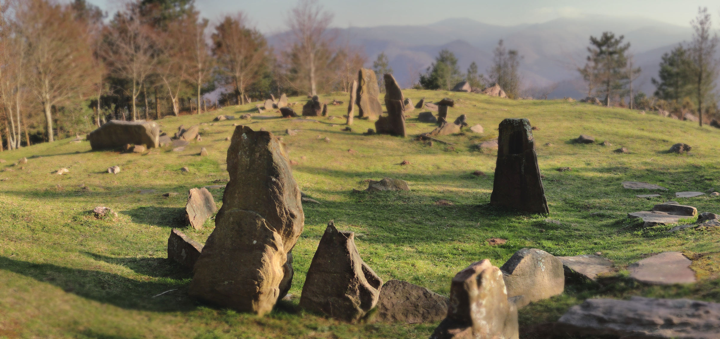 Mulisko gaina megaliths, Hernani